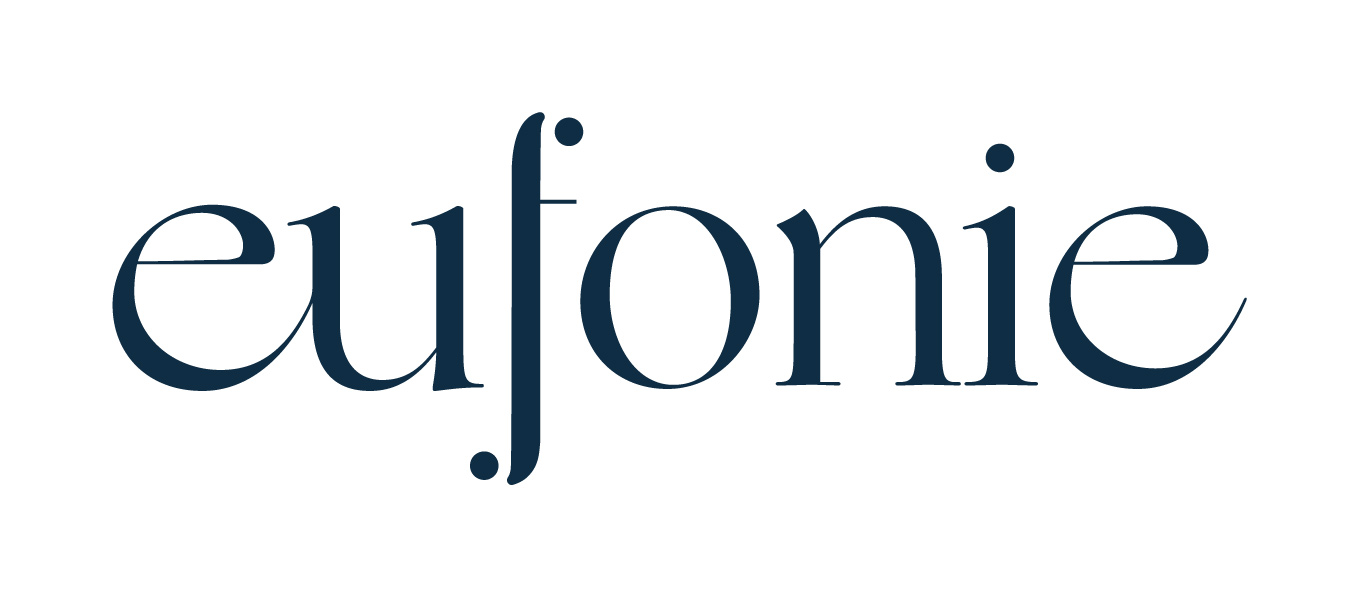 EUFONIE offical logo